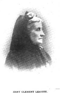 Photograph of Mary Greenleaf Clement Leavitt (1830–1912), founding member of the Woman's Christian Temperance Union (WCTU), and worldwide temperance crusader.